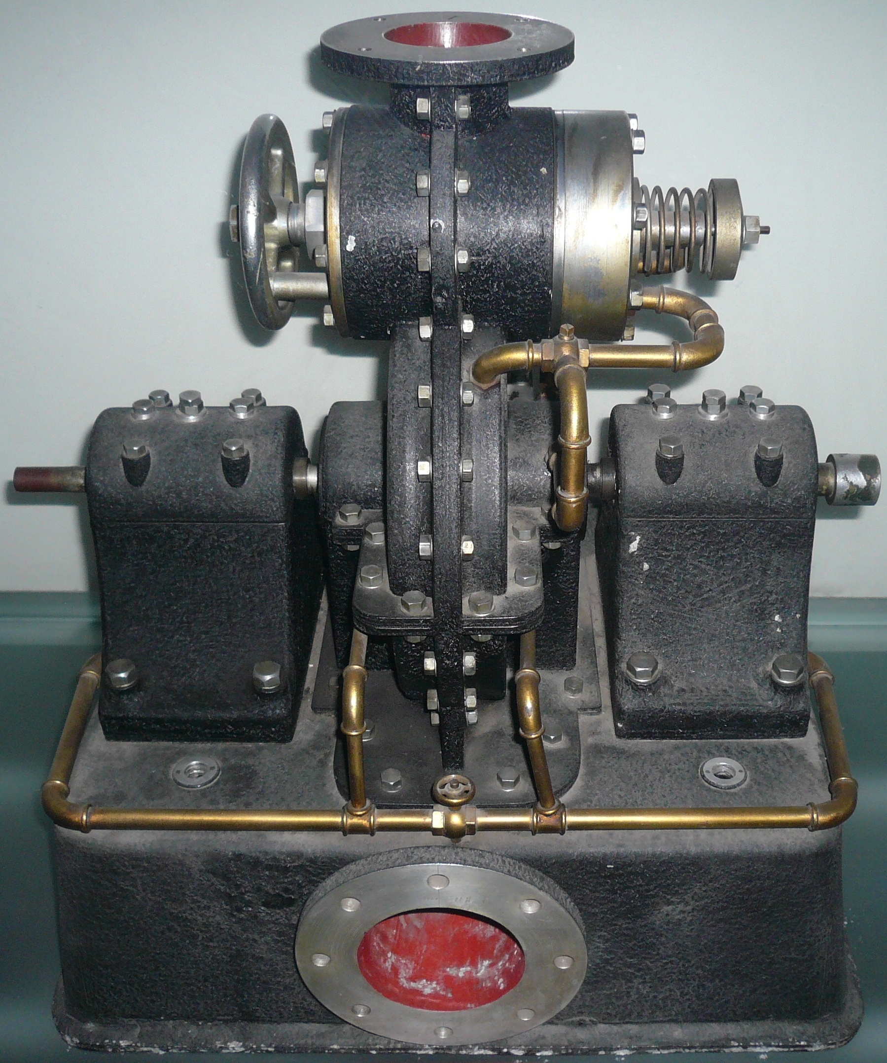 Tesla turbine at Nikola Tesla Museum, Belgrade, Serbia